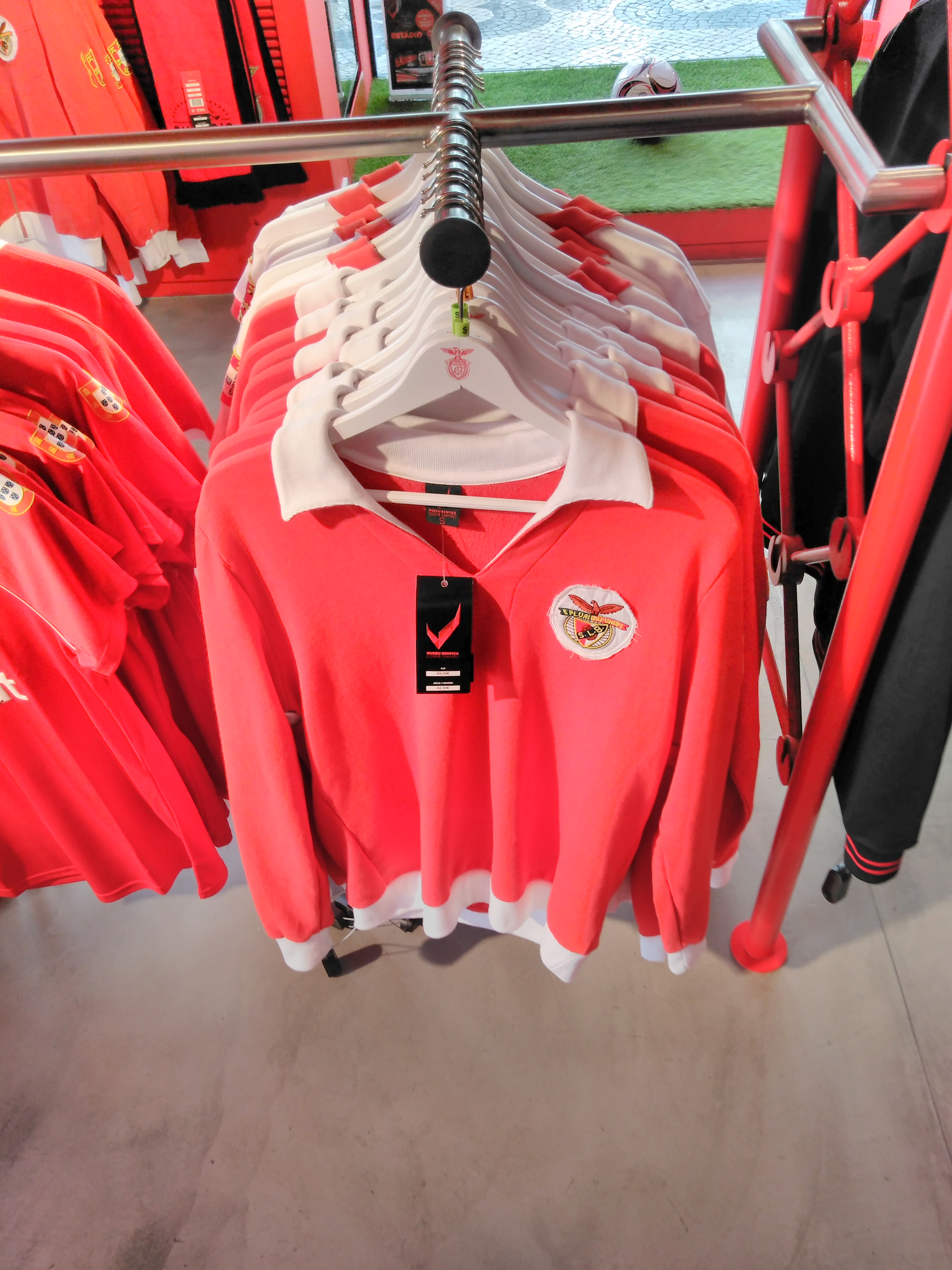 Long sleeve replica from the 1970